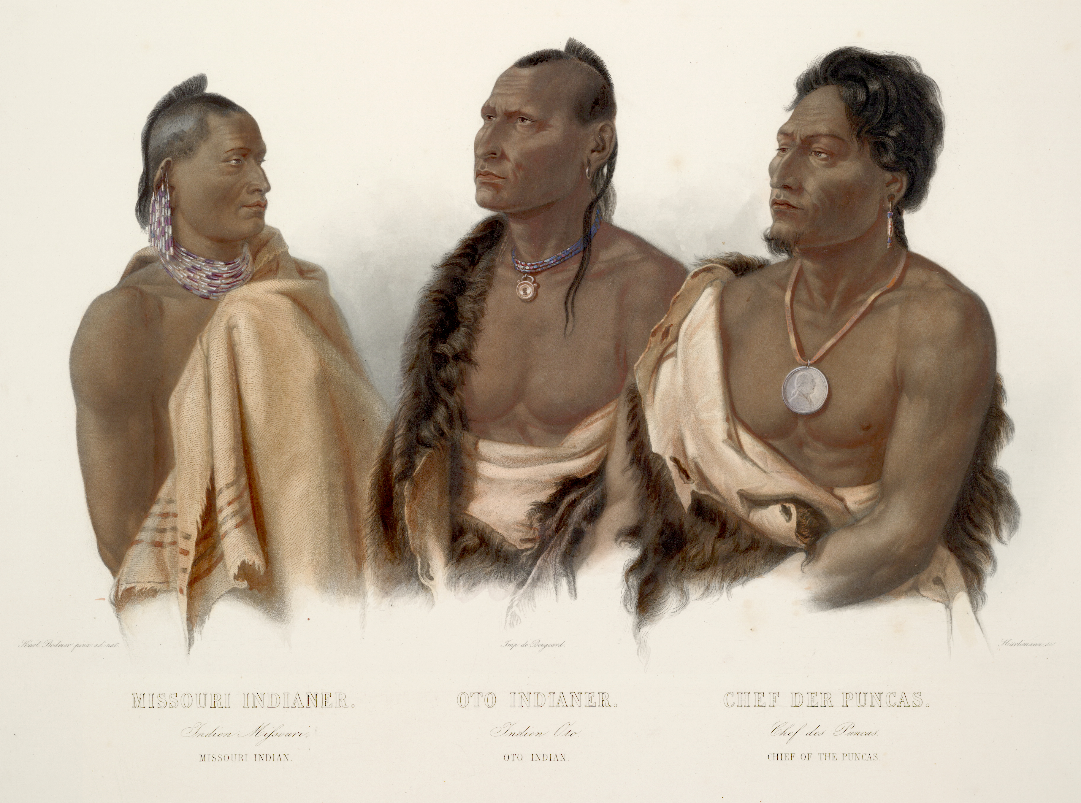 Karl Bodmer lithograph of Missouria, Otoe, and Ponca Indians